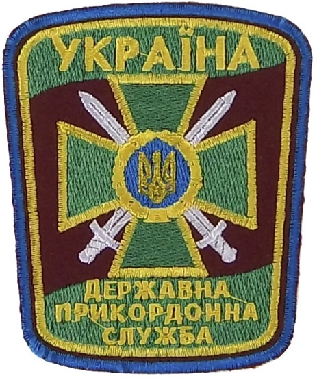 State Border Guard Service of Ukraine